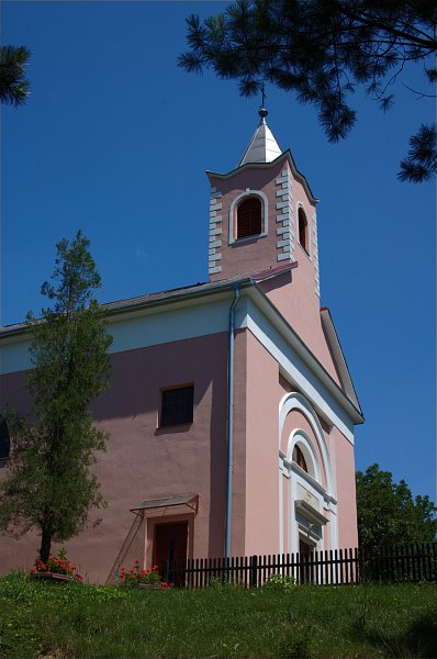 Koválovec, church